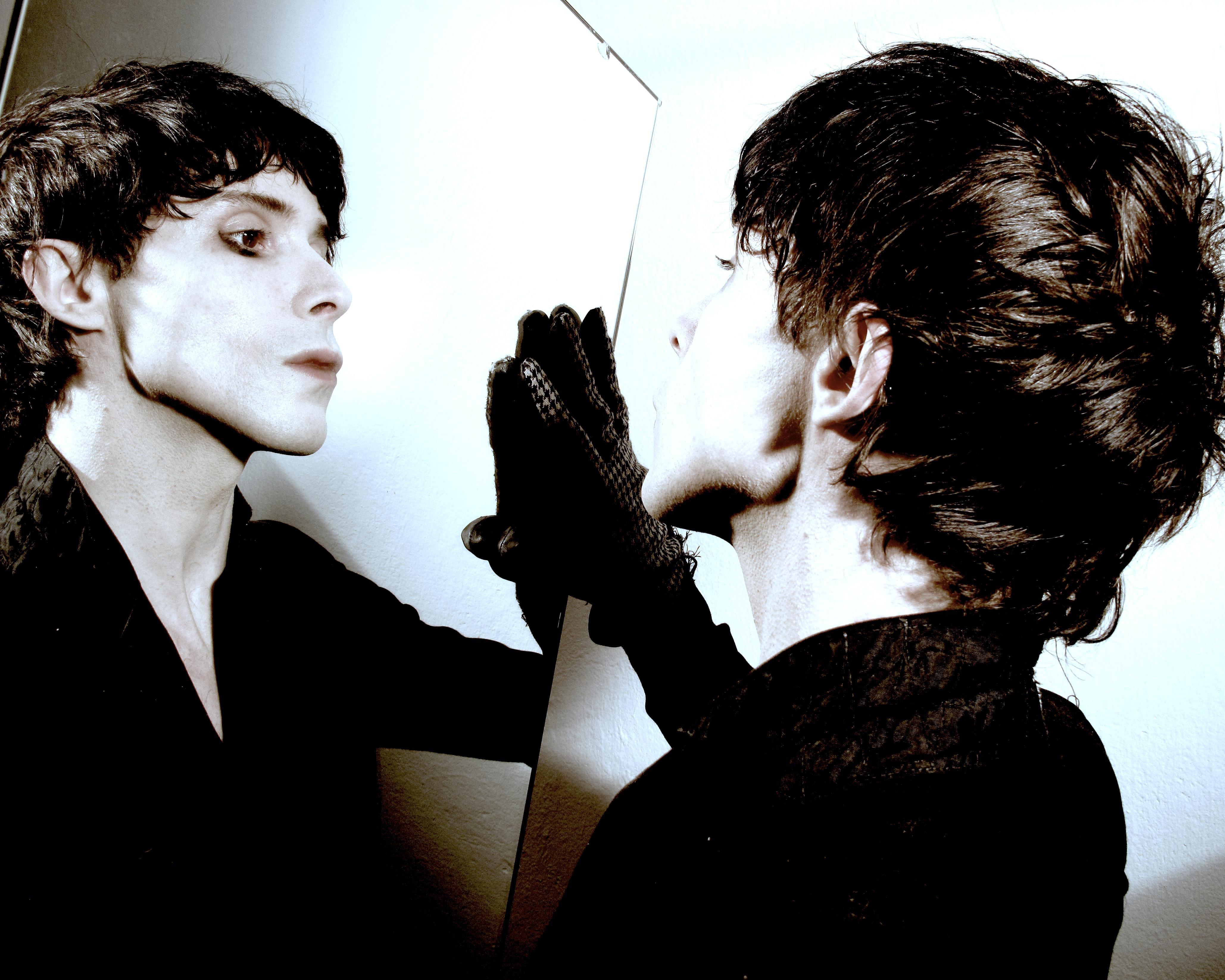 Portrait of Chris Corner (IAMX), picture taken by Janine Gezang